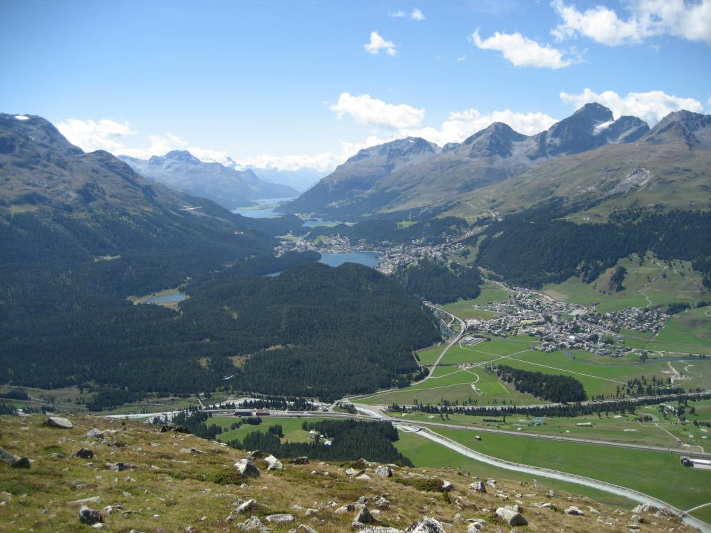 Engadiner Seenplatte with St. Mortz and Celerina